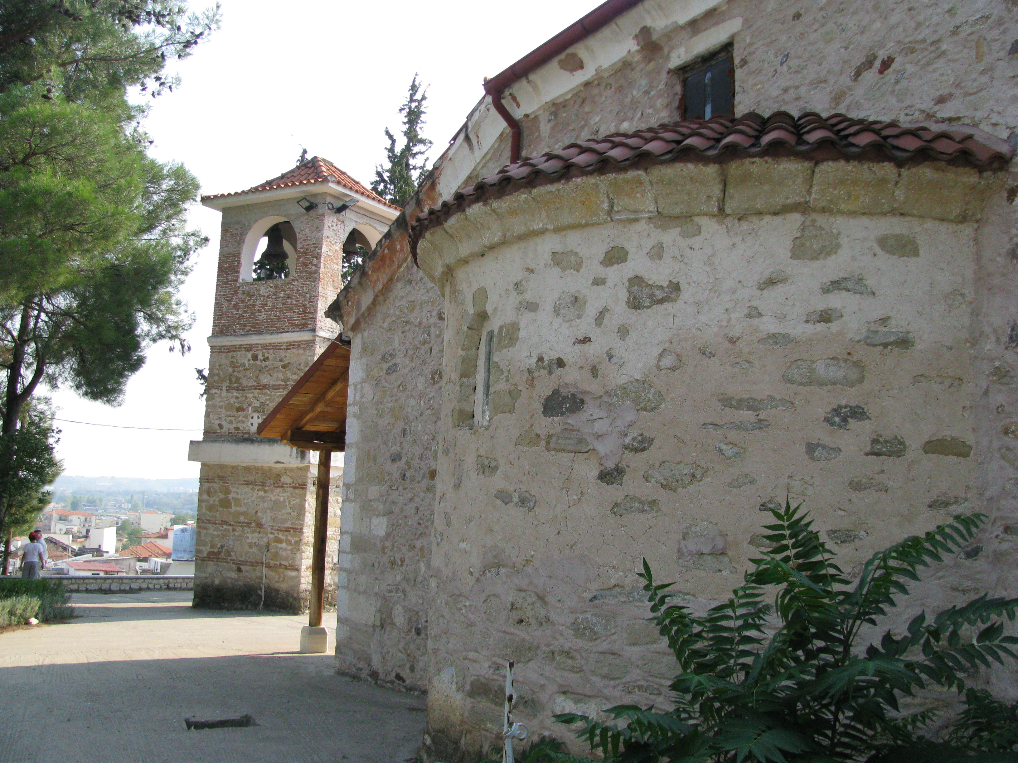 Old church in Axiupoli, Greece.